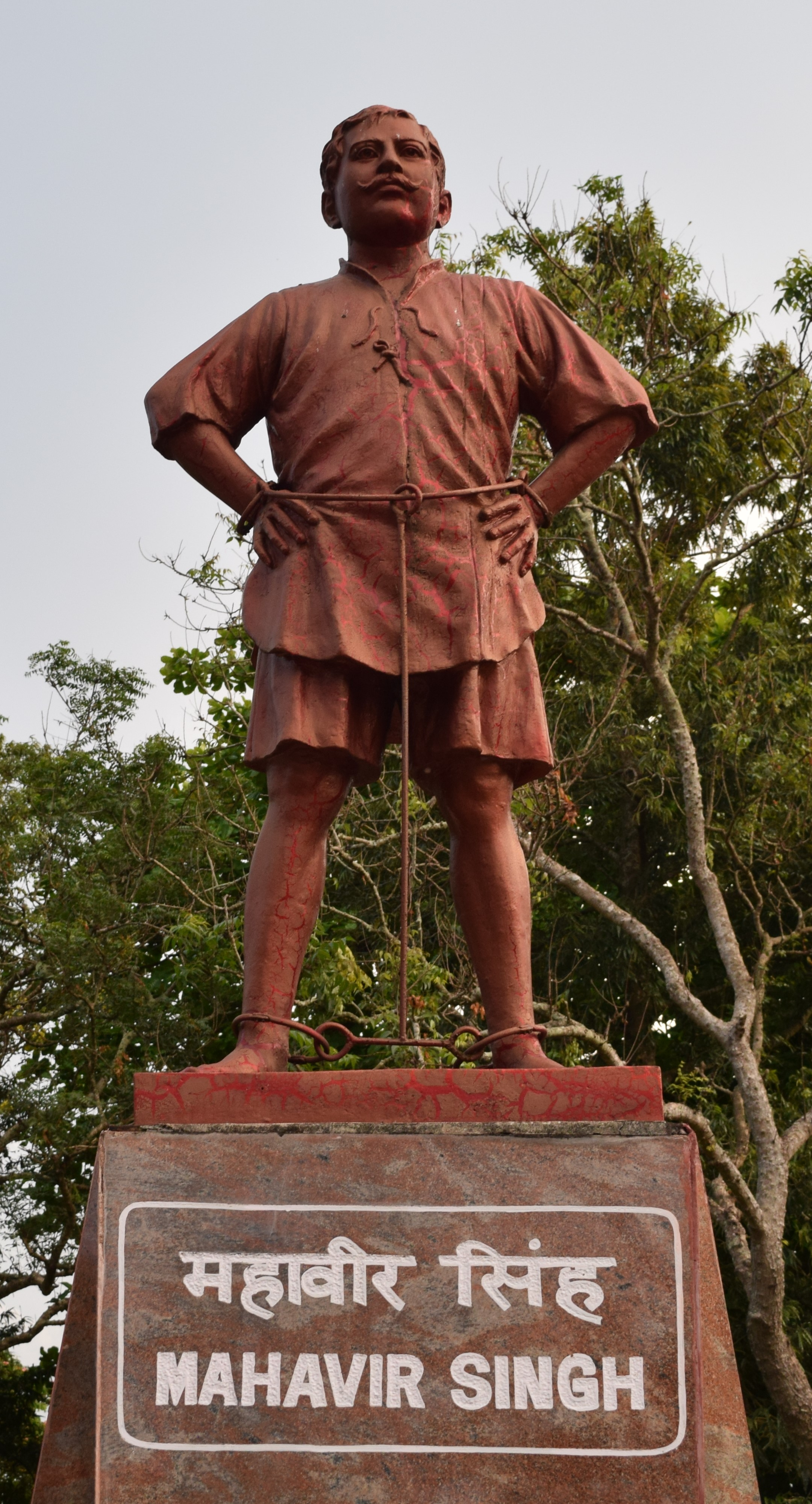 Satue of Mahavir Singh, a freedom fighter at Veer Savarkar Park, Port Blair